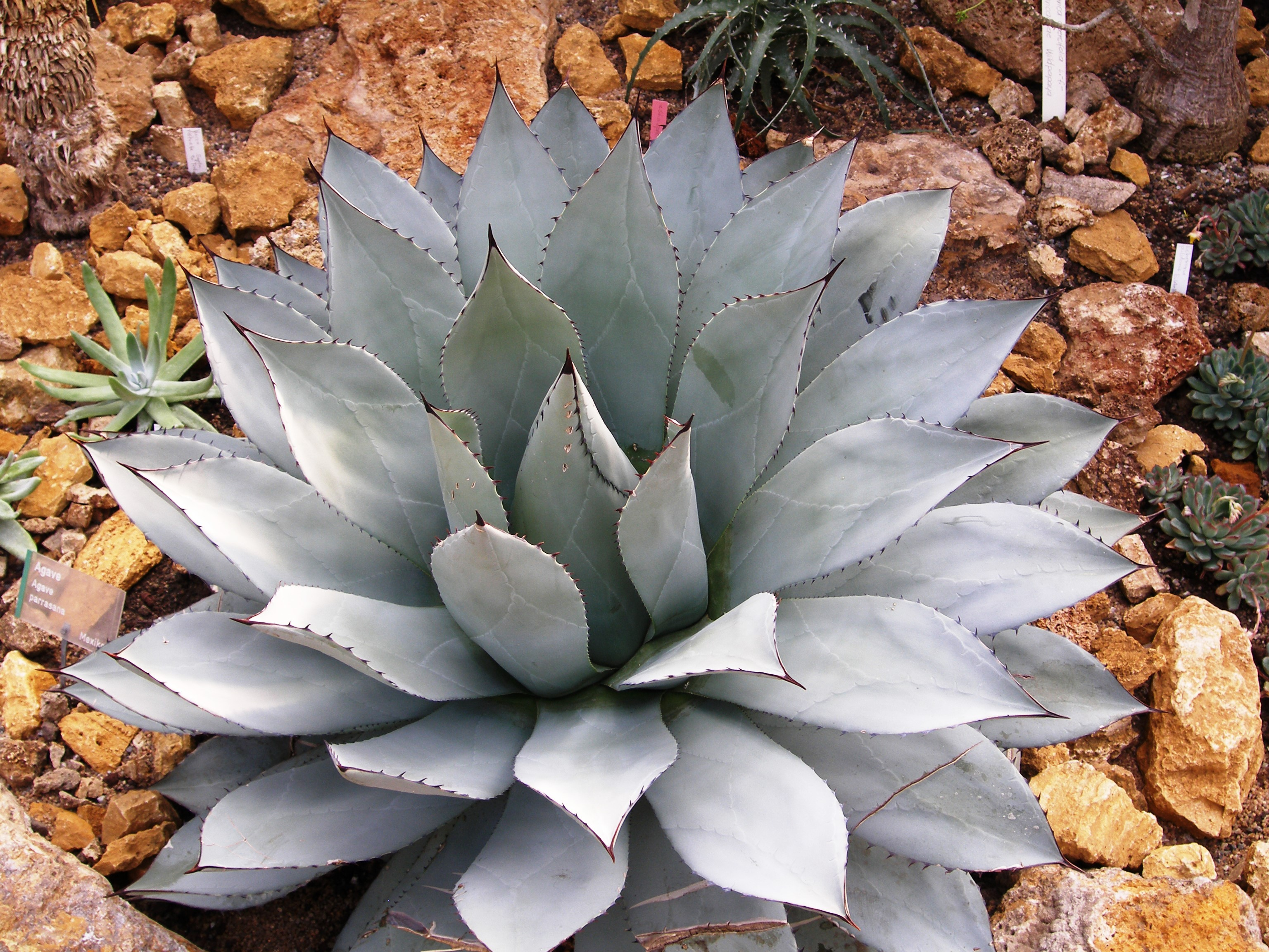 Specimen in cultivation at the Wilhelma Zoologisch-Botanische Garten, Stuttgart, Germany.